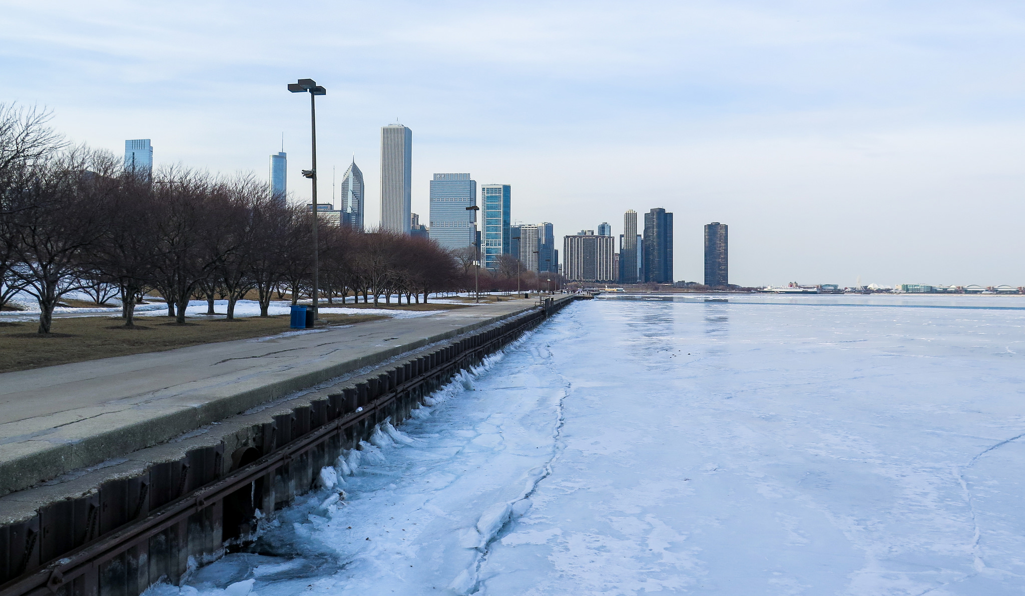 chicago winter 2014 lake michigan frozen